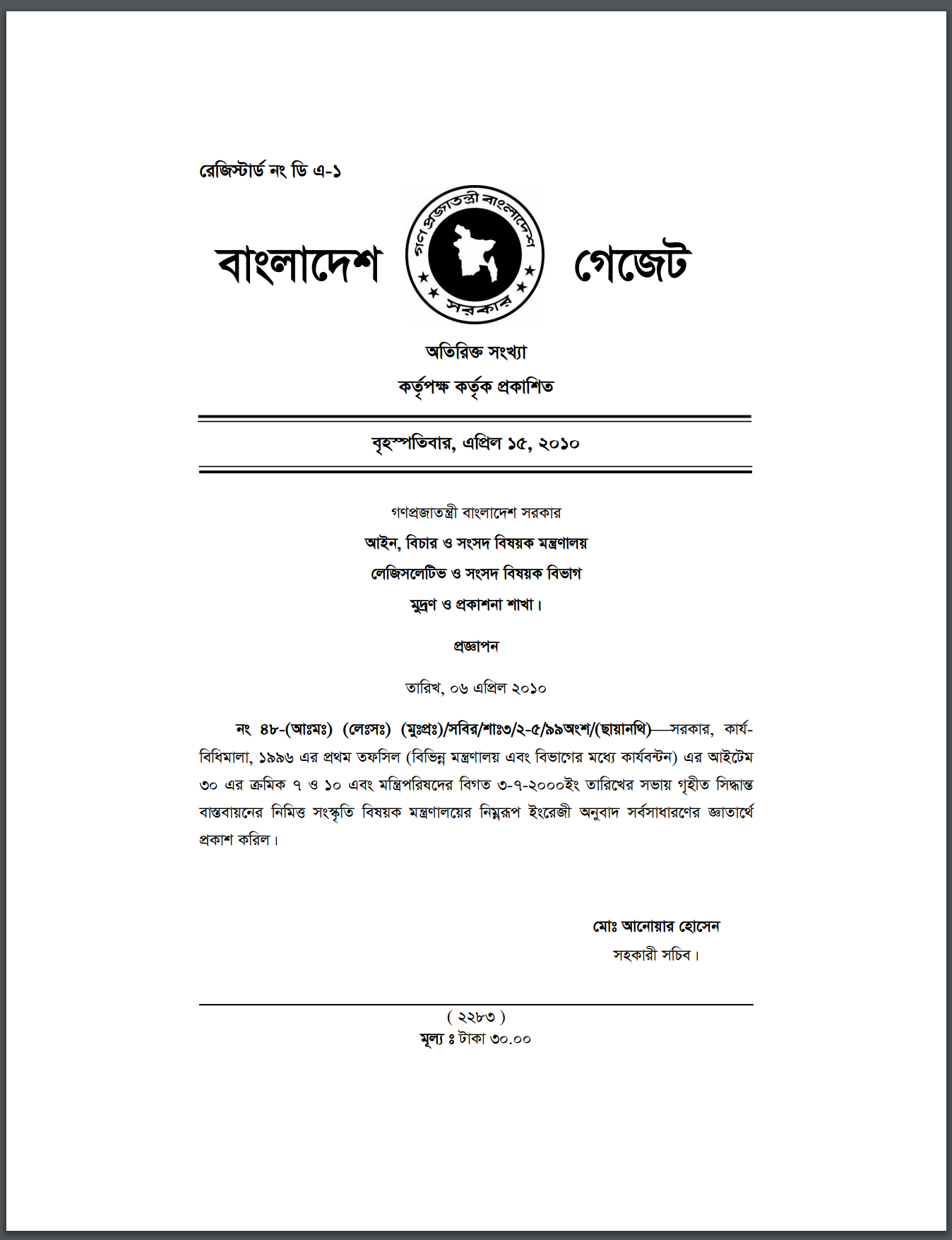 Title page of Copyright Act of Bangladesh, 2000